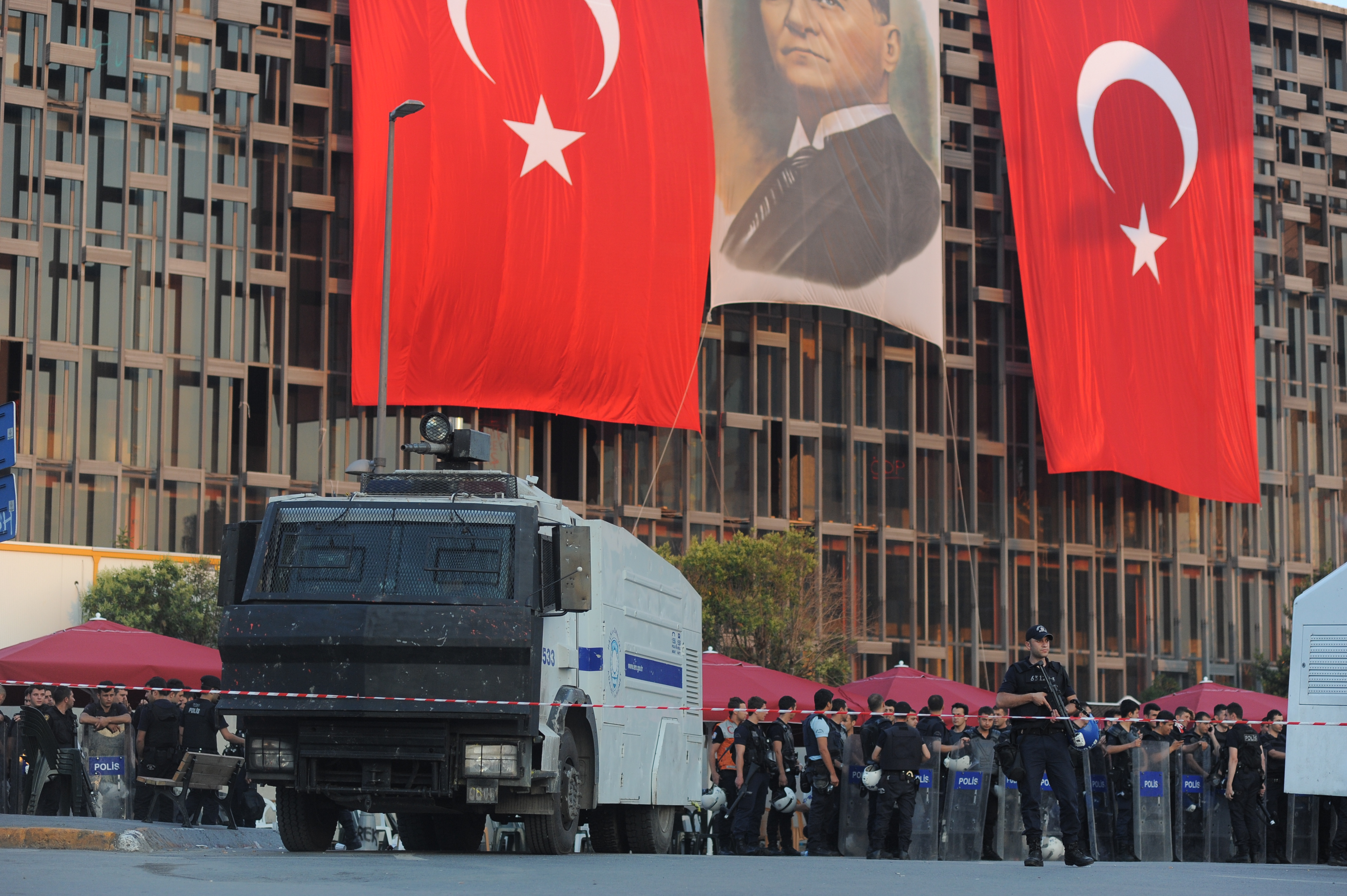 Taksim square cleaning. Events of June 16, 2013.